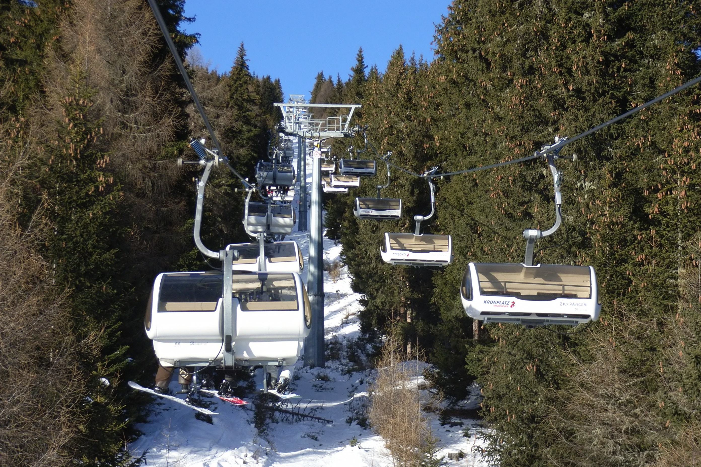 Italy, South Tyrol: Chairlift “Marchner” (6-CLD/B) at the Kronplatz.